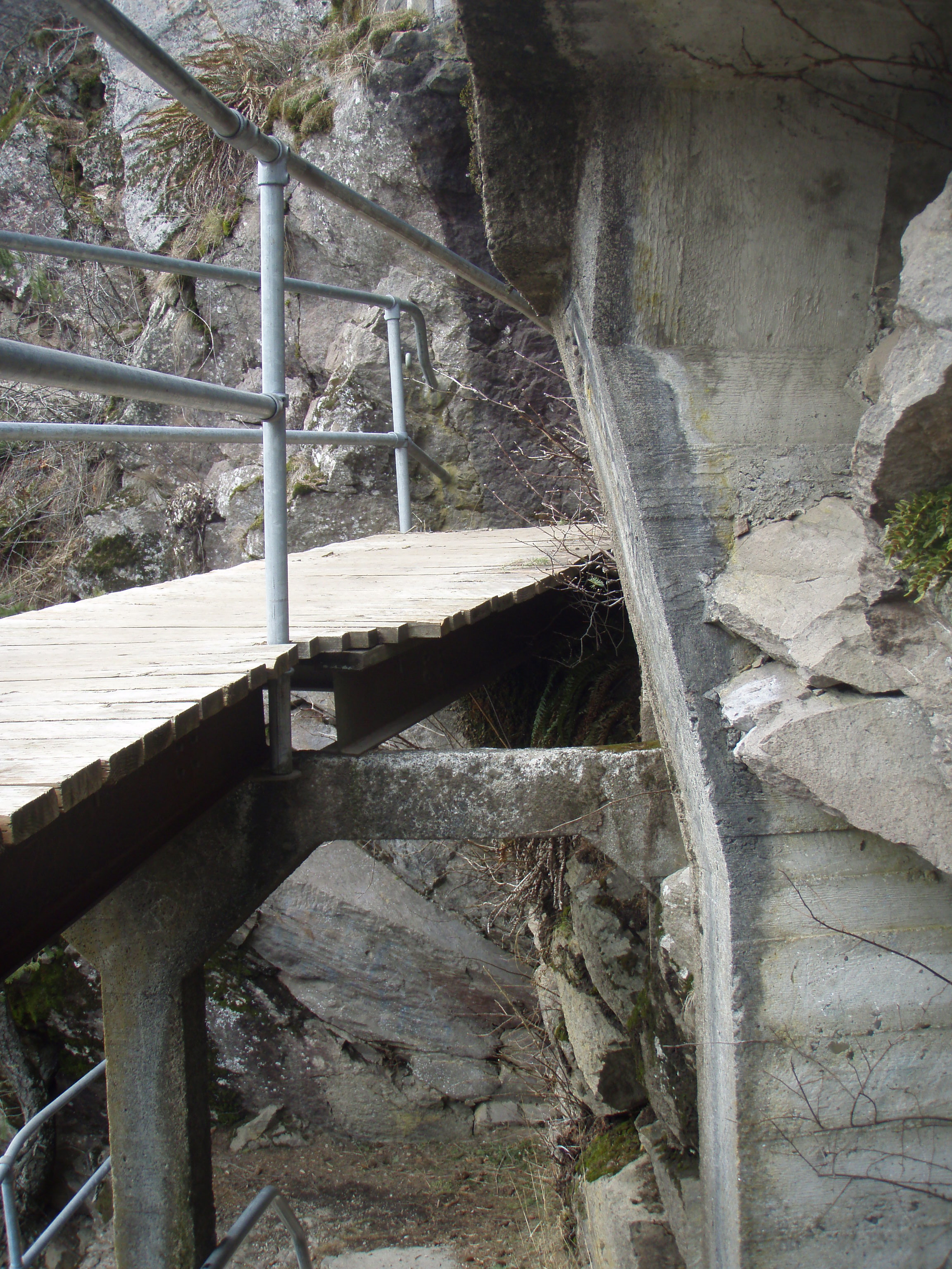 Walkway ascending Beacon Rock in the Columbia River Gorge